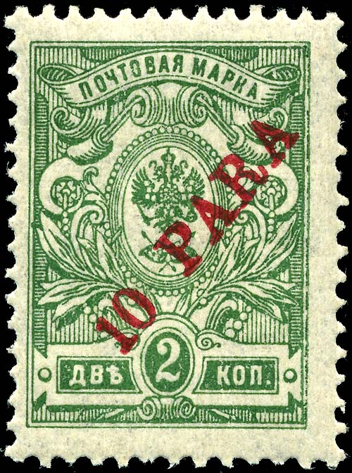 Russian post offices in the Ottoman Empire: 10pa stamp of 1910